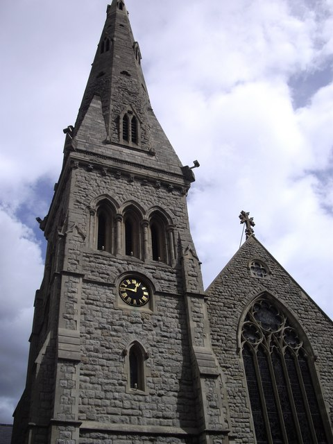 Armenian Church of St Yeghiche Cranley Gardens, South Kensington, London